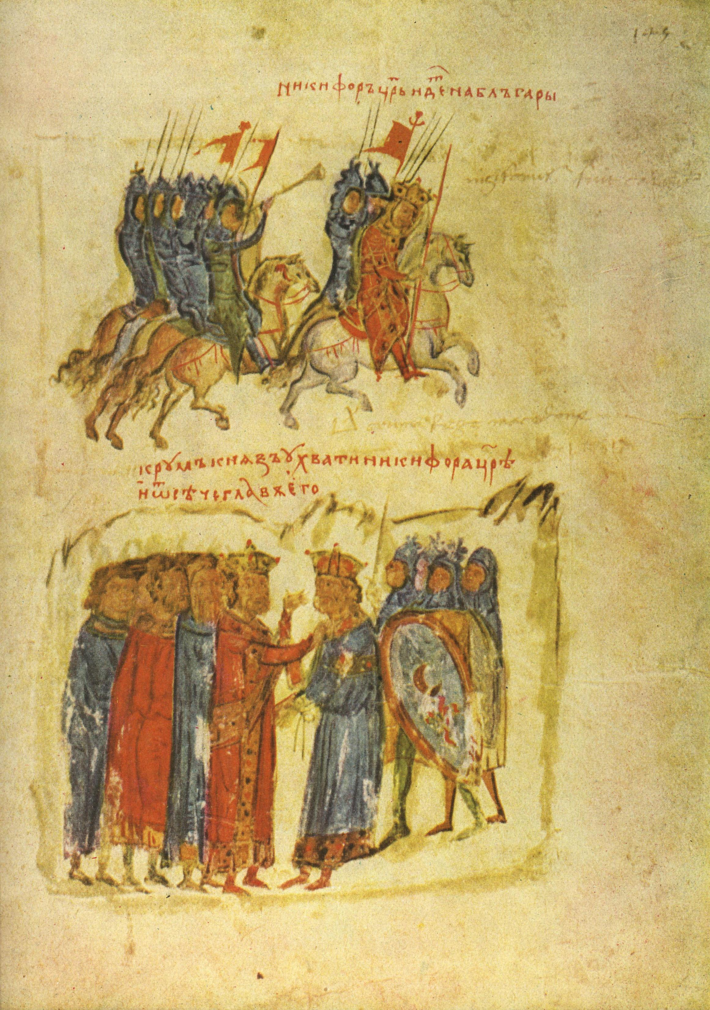 Miniature 50 from the Constantine Manasses Chronicle, 14 century: Emperor Nikephoros I attacks Bulgaria but gets captured by the Bulgarians.